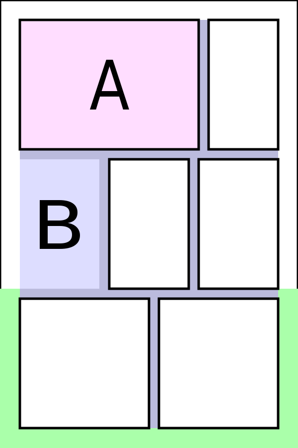 An generic example of a comics page. A is a panel B is a borderless panel bbbbdd is the gutters aaffaa is a tier